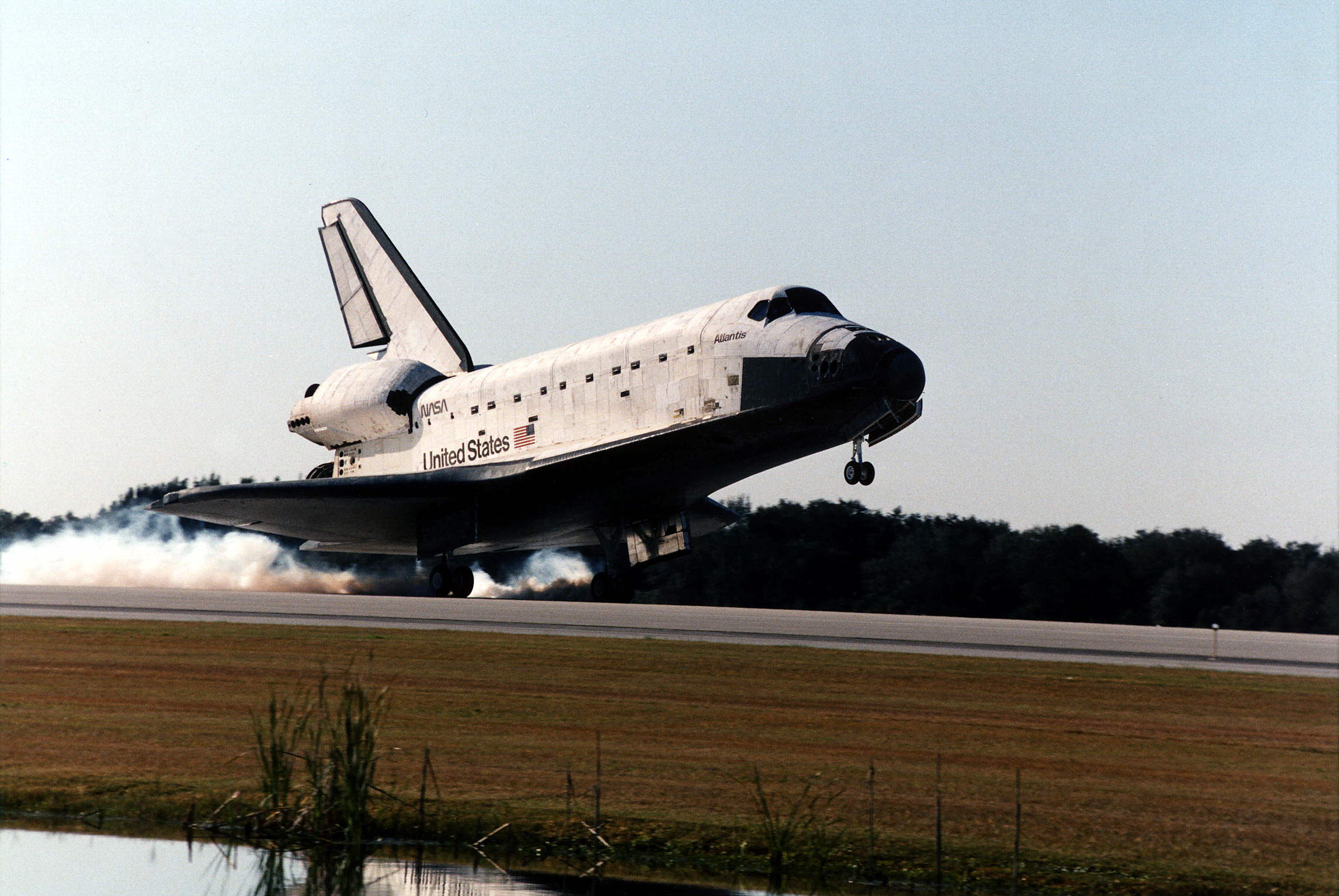 The Space Shuttle orbiter Atlantis touches down on Runway 33 at 9:22:44 a.m. EST Jan. 22 to conclude the fifth Shuttle-Mir docking mission and return NASA astronaut John Blaha to Earth after four months in space. Blaha was replaced by STS-81 Mission Specialist Jerry Linenger during the five days of docked operations. At main gear touchdown, the STS-81 mission duration was 10 days, 4 hours, 55 minutes. This was the 34th KSC landing in Shuttle history. Mission Commander Michael A. Baker flew Atlantis to a perfect landing, with help from Pilot Brent W. Jett, Jr. Other returning STS-81 crew members are Mission Specialists John M. Grunsfeld, Peter J. K. "Jeff" Wisoff and Marsha S. Ivins. Atlantis also brought back experiment samples from the Russian space station for analysis on Earth, along with Russian logistics equipment.